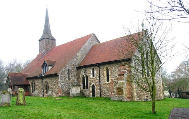 White Notley Original description: Church, White Notley, Essex